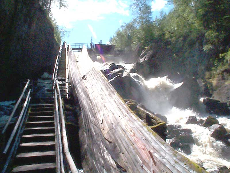 Auttiköngäs waterfall in Rovanimen mlk, Finland